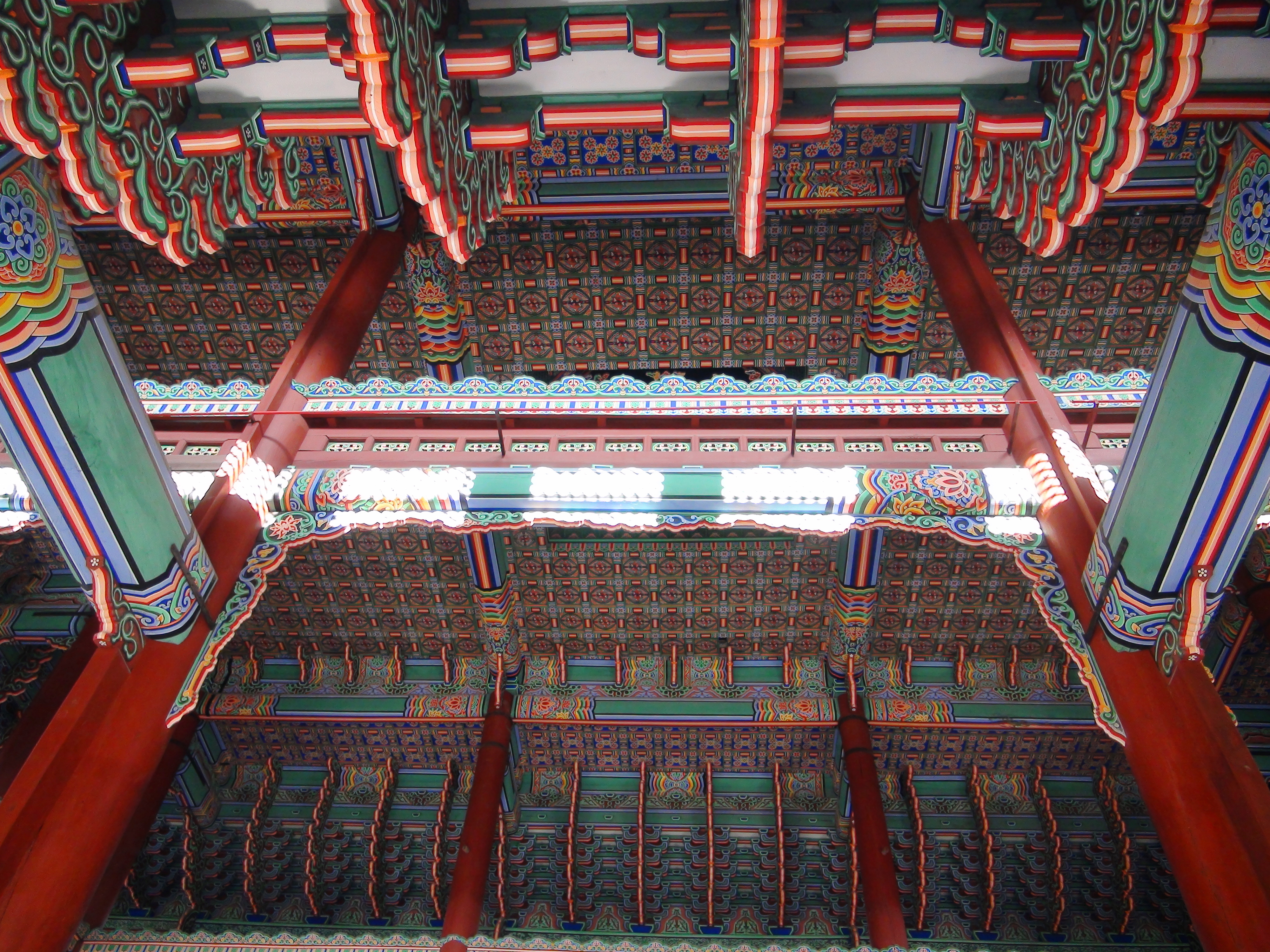 Ceiling of the Geunjeongjeon Gyeongbok-gung palace